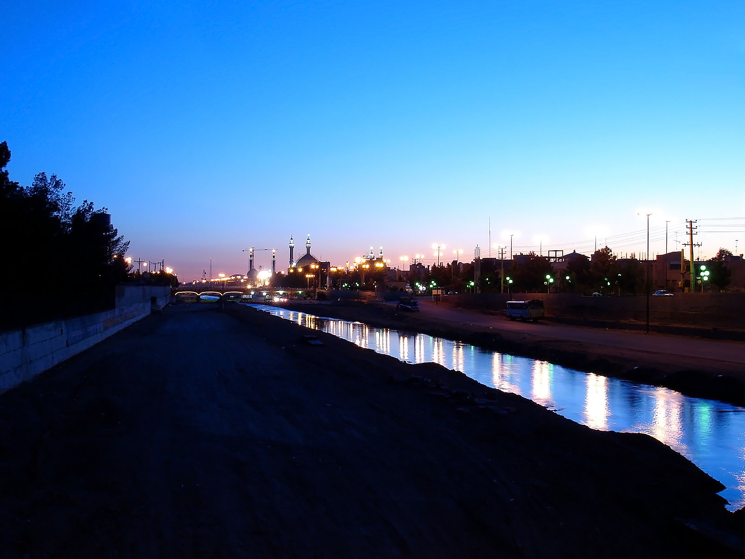 Qom also spelled as Ghom, is the eighth largest city in Iran. It lies 125 kilometres (78 mi) by road southwest of Tehran and is the capital of Qom Province. At the 2011 census its population was 1,074,036 (957,496 at the 2006 census, in 241,827 families), comprising 545,704 men and 528,332 women. It is situated on the banks of the Qom River. Qom is considered holy by Shiʿa Islam, as it is the site of the shrine of Fatema Mæ'sume, sister of Imam `Ali ibn Musa Rida (Persian Imam Reza, 789–816 AD). The city is the largest center for Shiʿa scholarship in the world, and is a significant destination of pilgrimage. Qom is famous for a brittle toffee called “Sohan” (Persian:سوهان), considered a souvenir of the city and sold by 2,000 to 2,500 “Sohan” shops.